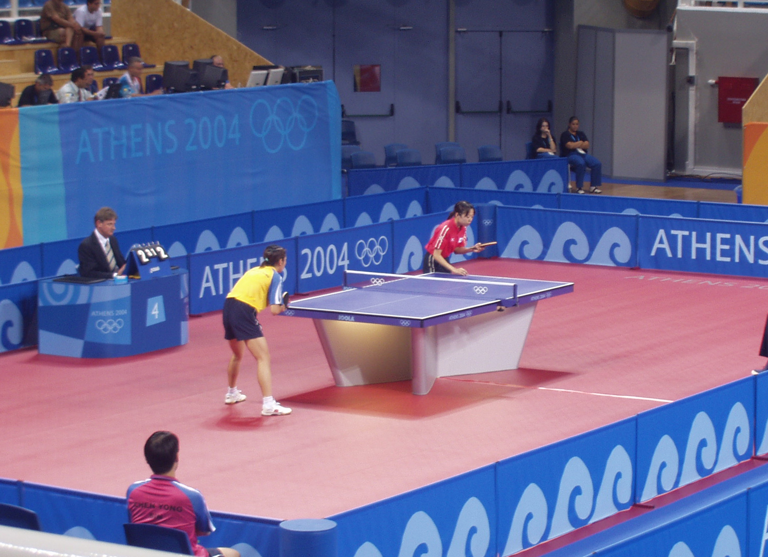 Table tennis at the 2004 Summer Olympics